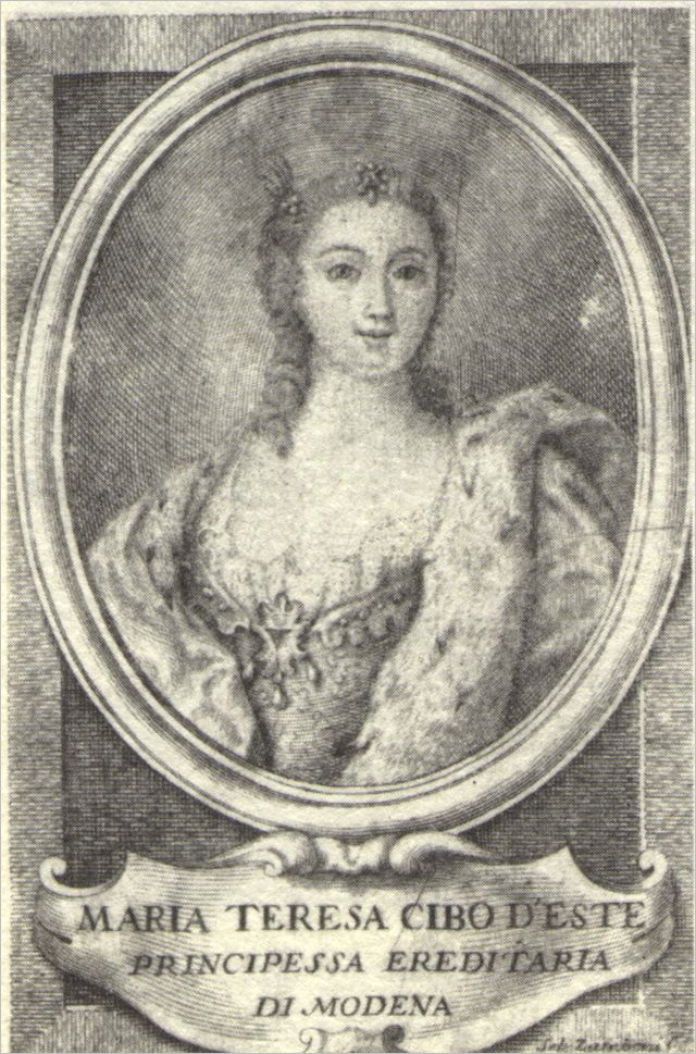 Portrait of Maria Teresa Cybo (1725-1790) Text reads "Maria Teresa Cibo d'Este, Hereditary Princess of Modena"